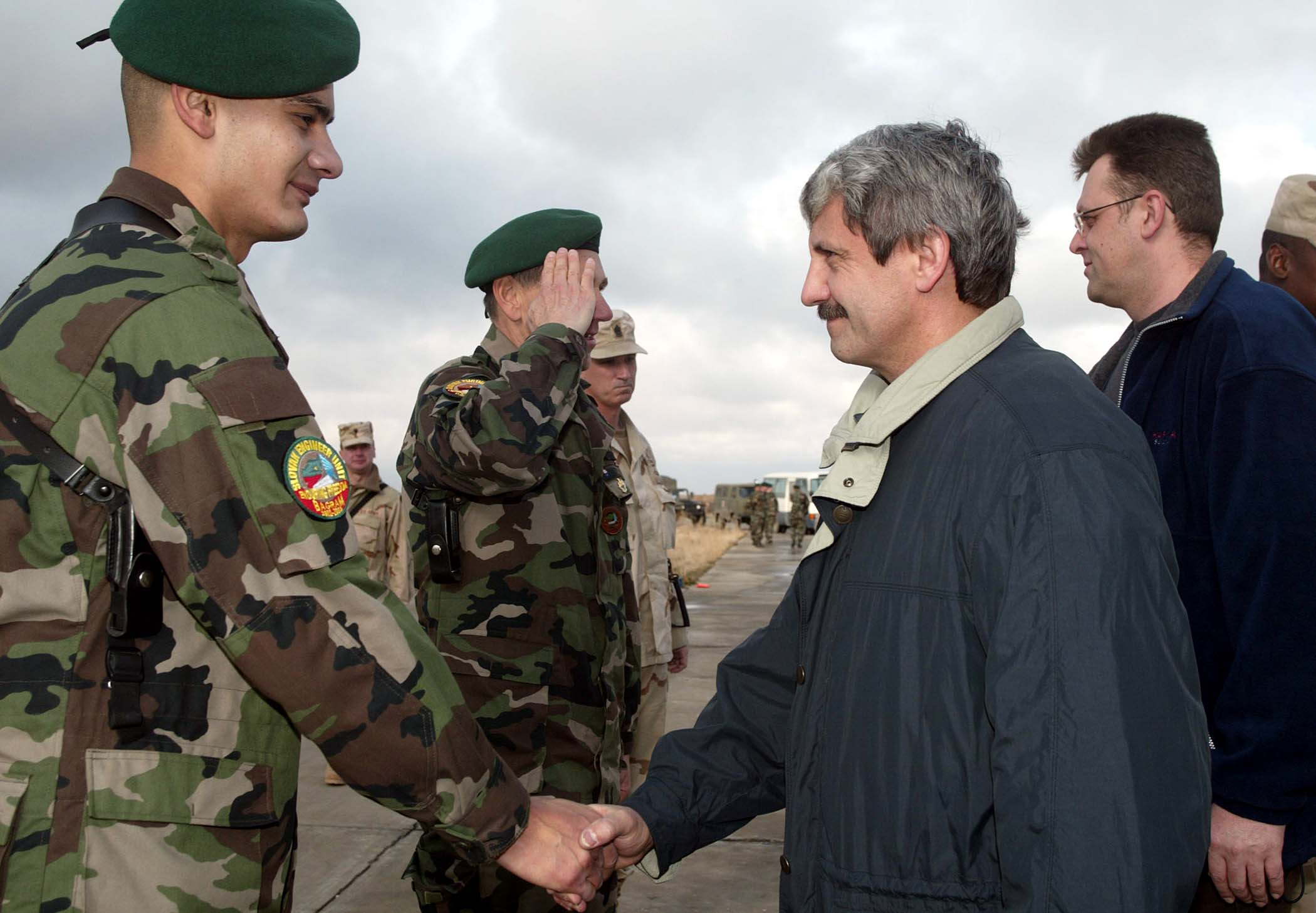 Prime Minister Mikuláš Dzurinda of Slovakia shakes the hand of Slovak 2nd Lt. Fejercak Lubumir, operational officer, as Defense Minister Juraj Liška is saluted by Slovak Lt. Col. Truska Jan during the leaders' Jan. 23 visit to their country's troops at Bagram Air Base, Afghanistan.